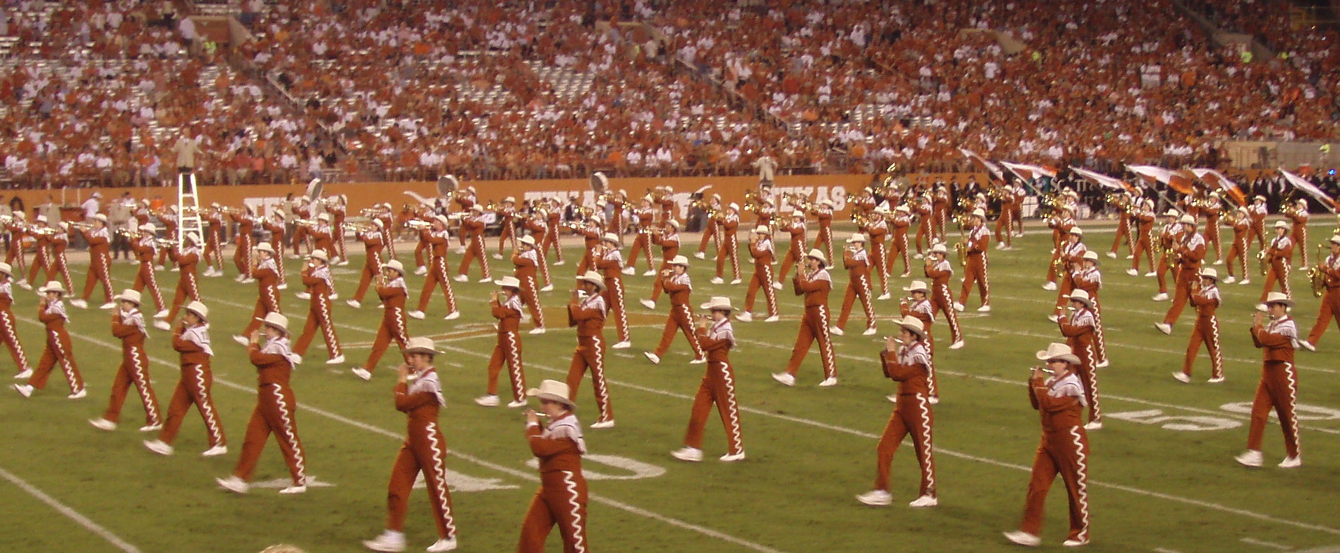 The University of Texas at Austin Longhorn Band performing March Grandioso during Rice game.